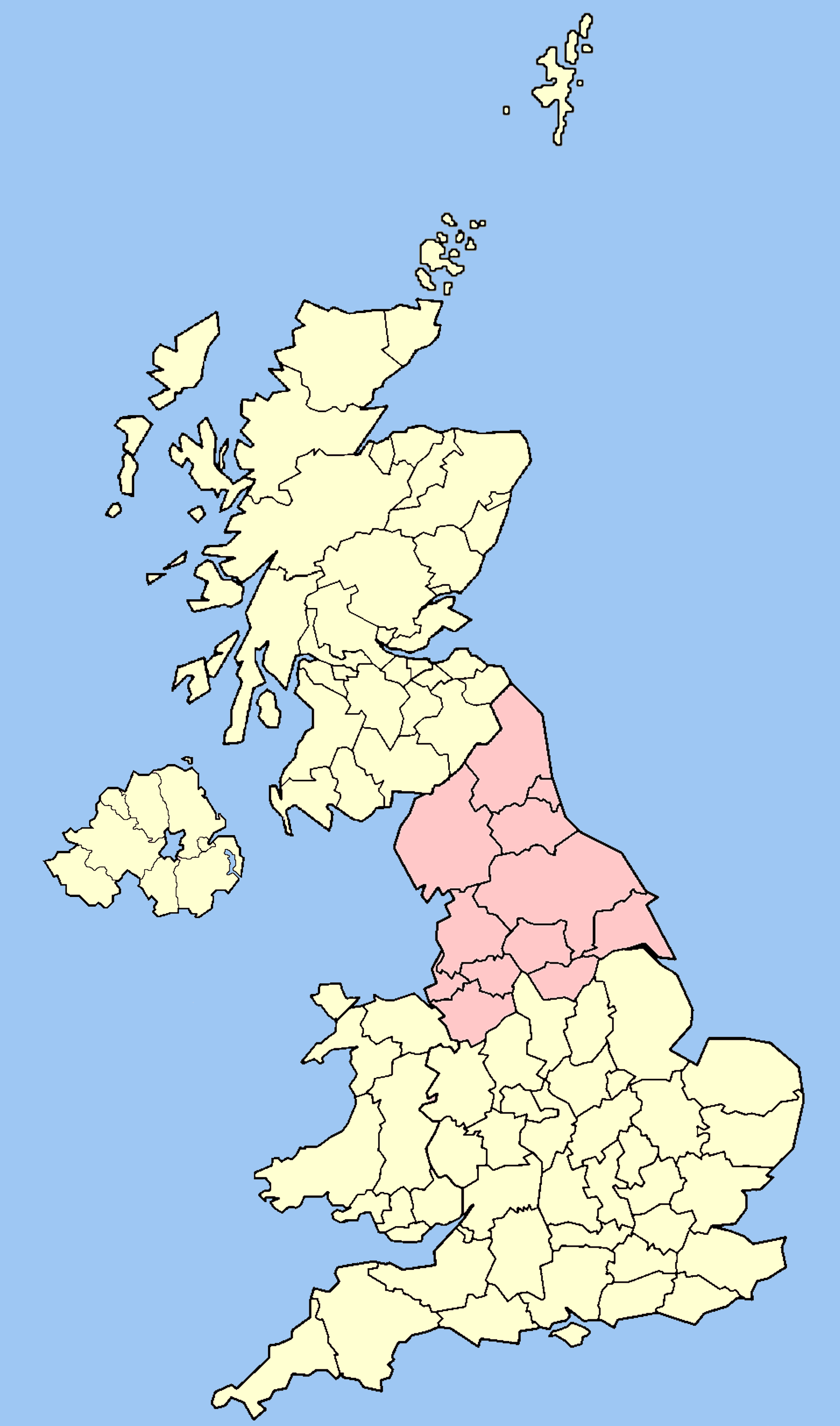 Map of Northern England within the United Kingdom